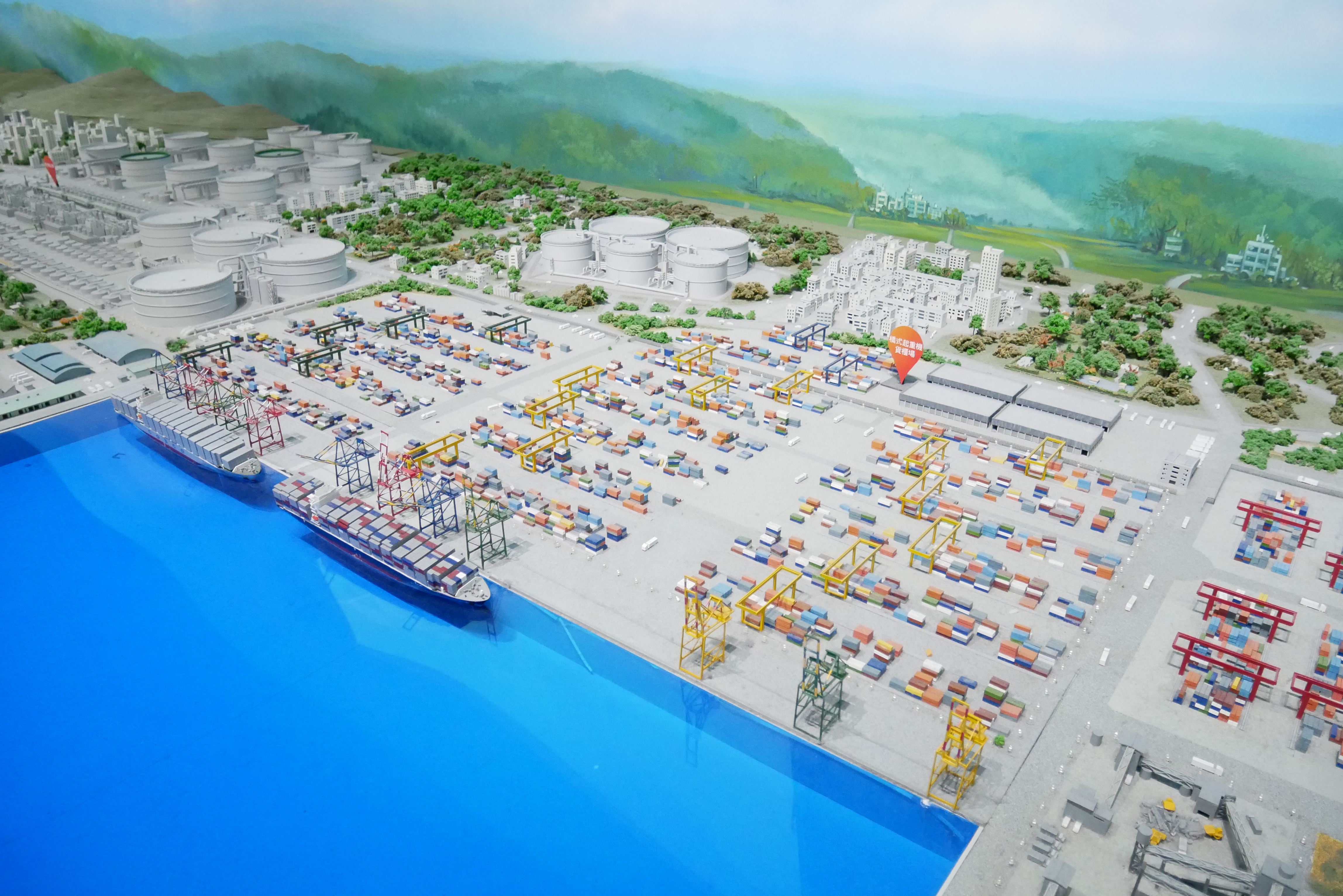 國立海洋科技博物館內商港模型，基隆市中正區長潭里